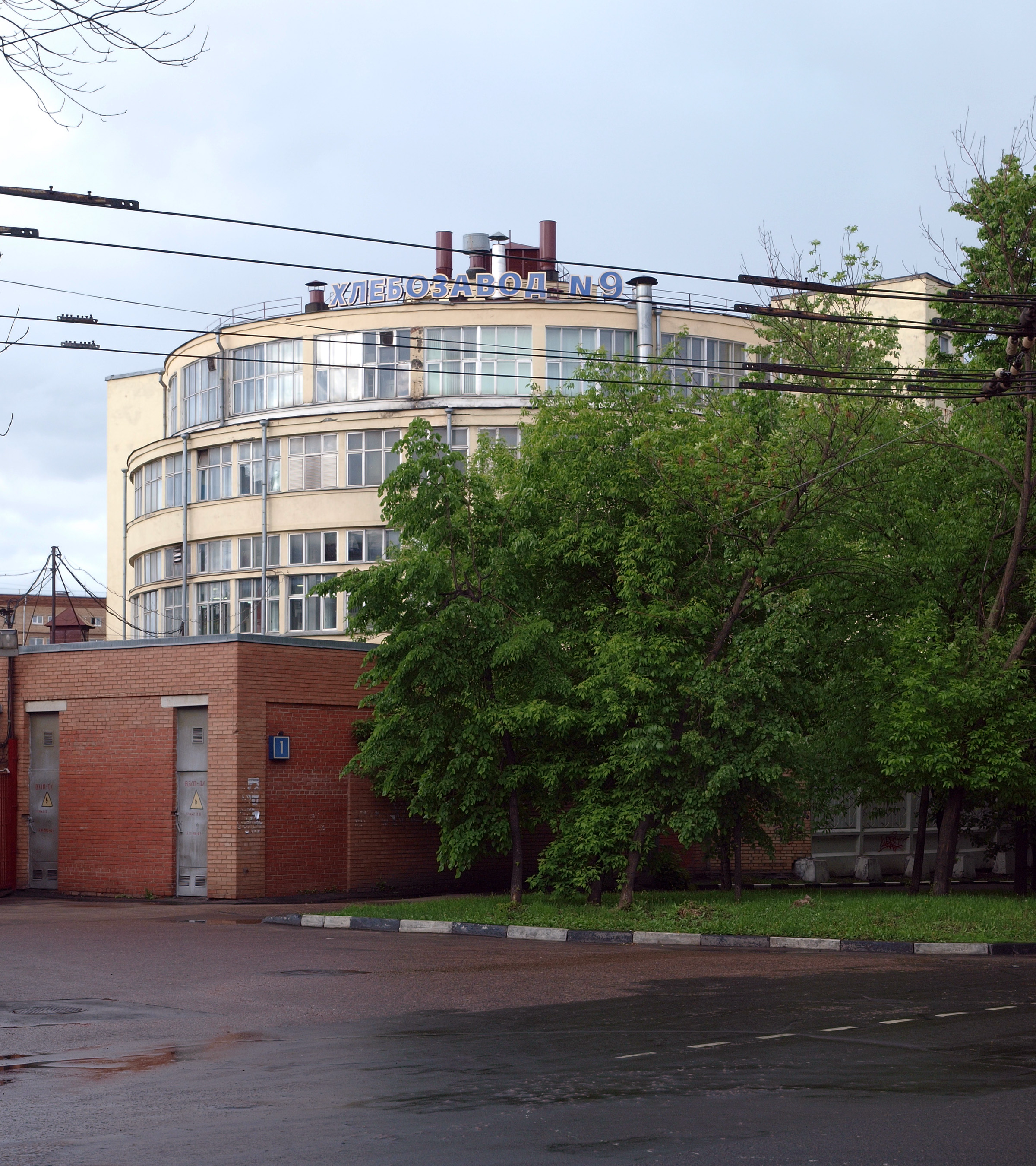 Roundhouse-type bakery in Moscow, Novodmitrovskaya street (operating).